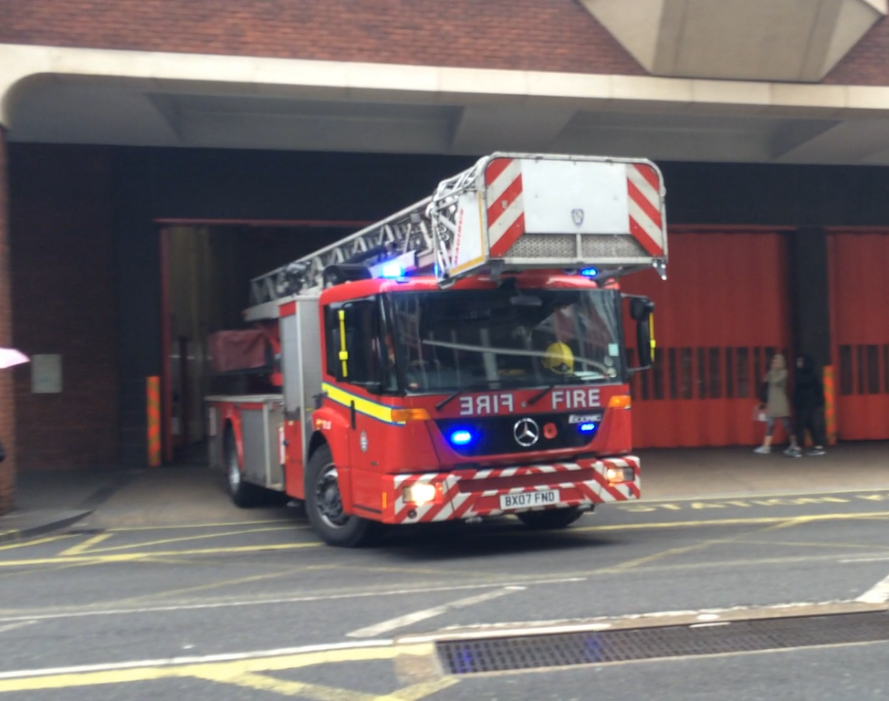 One of the LFB's Turntable Ladders leaving Soho Fire station